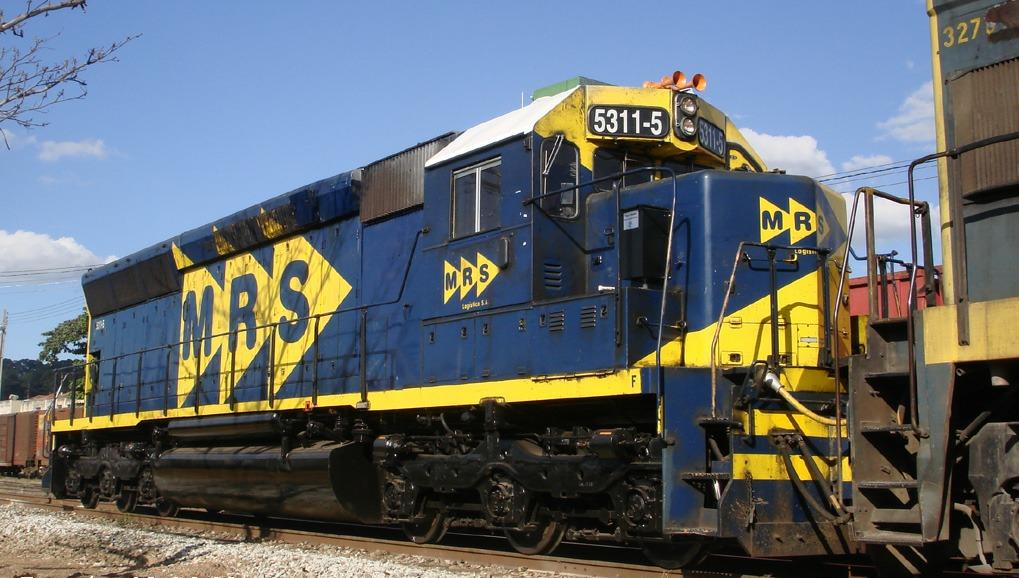 Locomotive MRS EMD SD40-3MP #5311 Barreiro Yard - Belo Horizonte - MG - BR